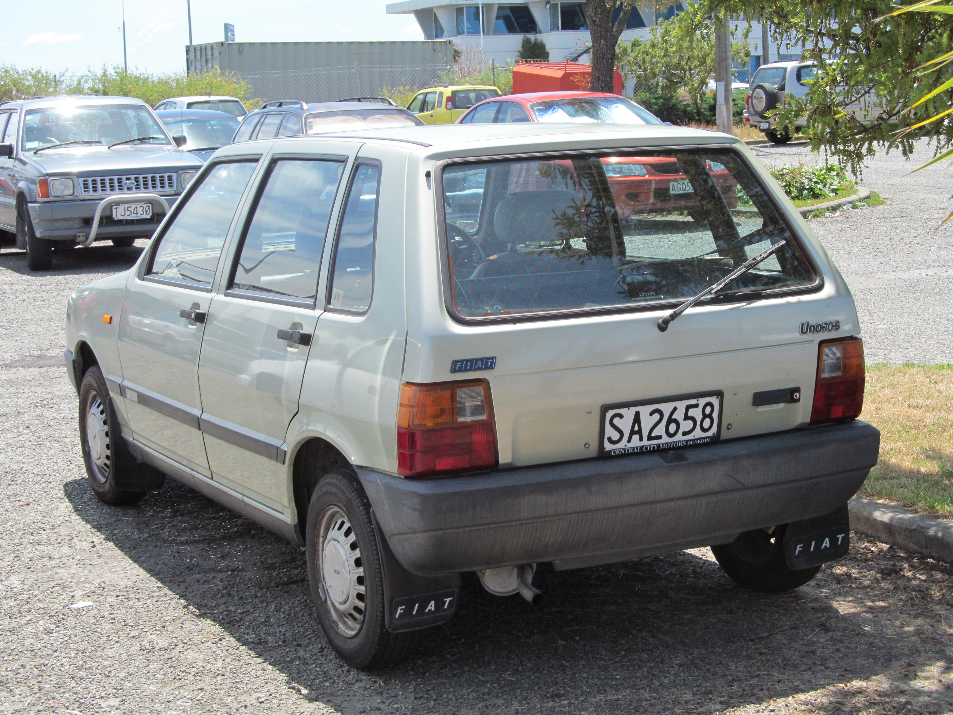 1984 Fiat Uno 70S